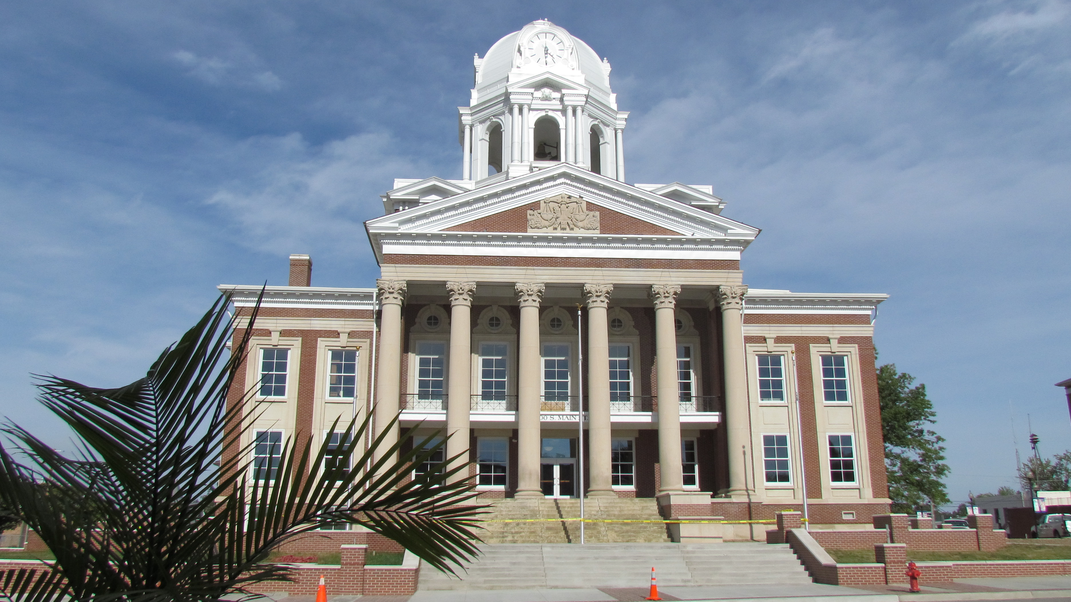 The newly renovated courthouse in Greenville, KY.